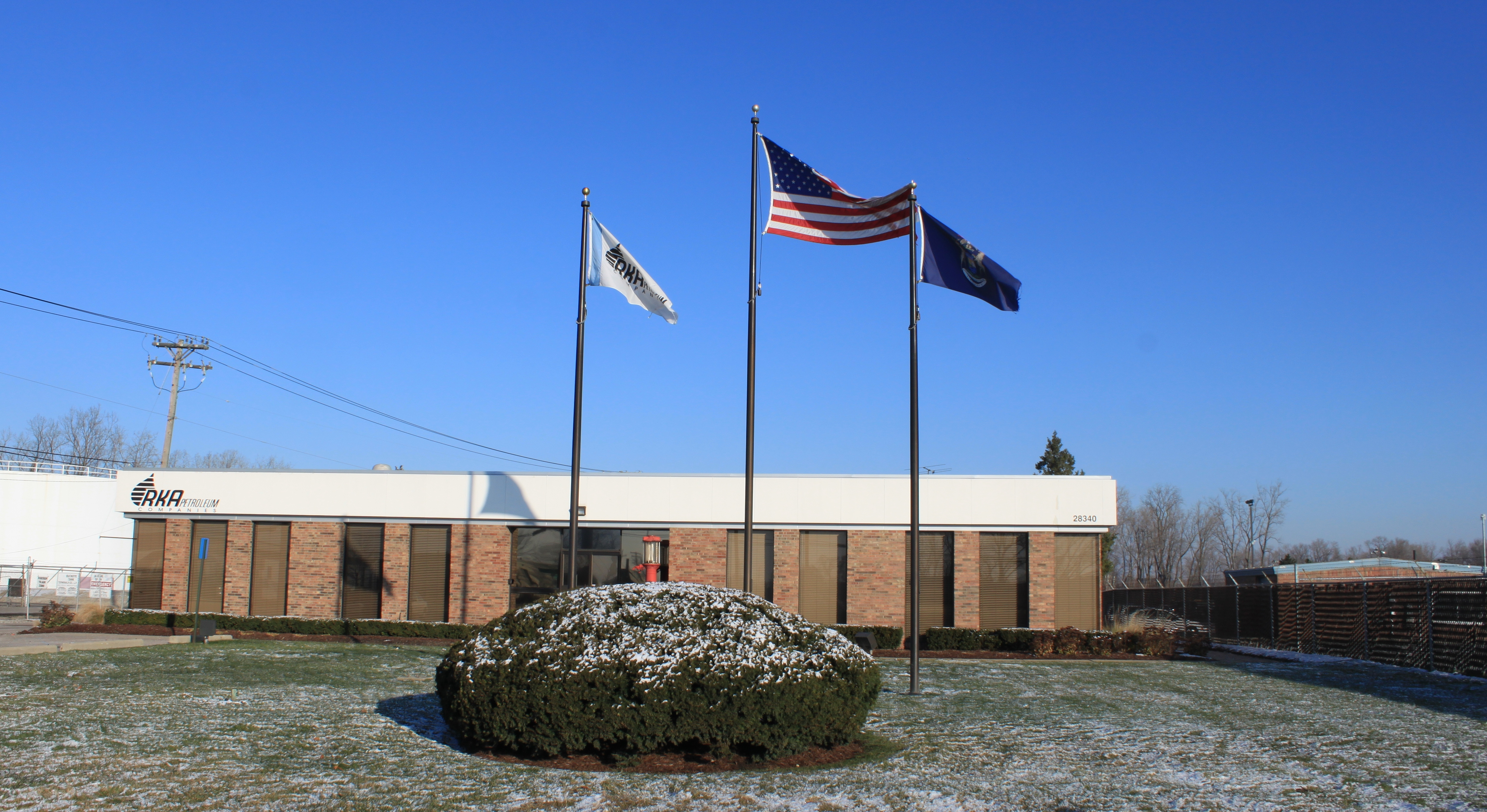 RKA Petroleum Companies headquarters building, 28340 Wick Road, Romulus, Michigan.